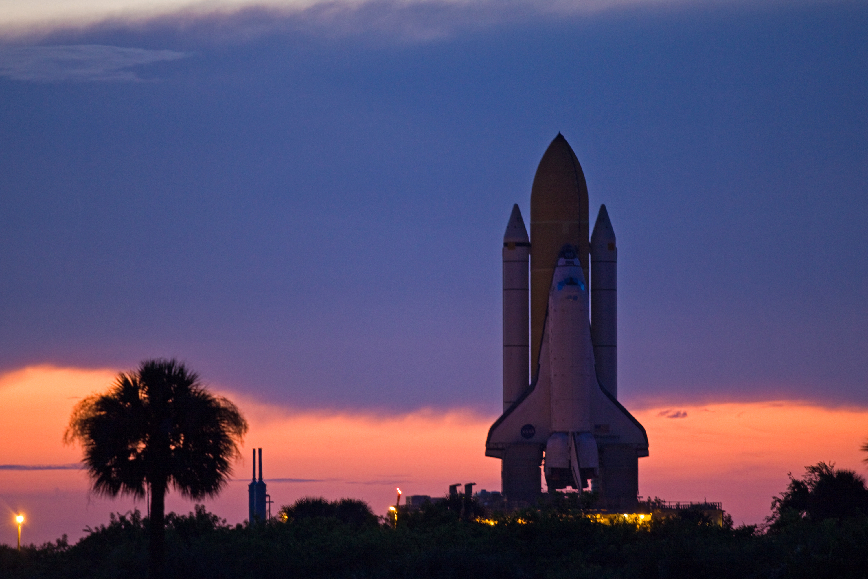 CAPE CANAVERAL, Fla. – Space shuttle Discovery is silhouetted against the dawn sky as it rolls out to Launch Pad 39A at NASA's Kennedy Space Center in Florida. First motion out of the Vehicle Assembly Building was at 2:07 a.m. EDT Aug. 4. Rollout was delayed approximately 2 hours due to lightning in the area. The 3.4-mile journey was slower than usual as technicians stopped several times to clear mud from the crawler's treads and bearings caused by the waterlogged crawlerway. Discovery's 13-day flight will deliver a new crew member and 33,000 pounds of equipment to the International Space Station. The equipment includes science and storage racks, a freezer to store research samples, a new sleeping compartment and the COLBERT treadmill. Launch of Discovery on its STS-128 mission is targeted for late August.